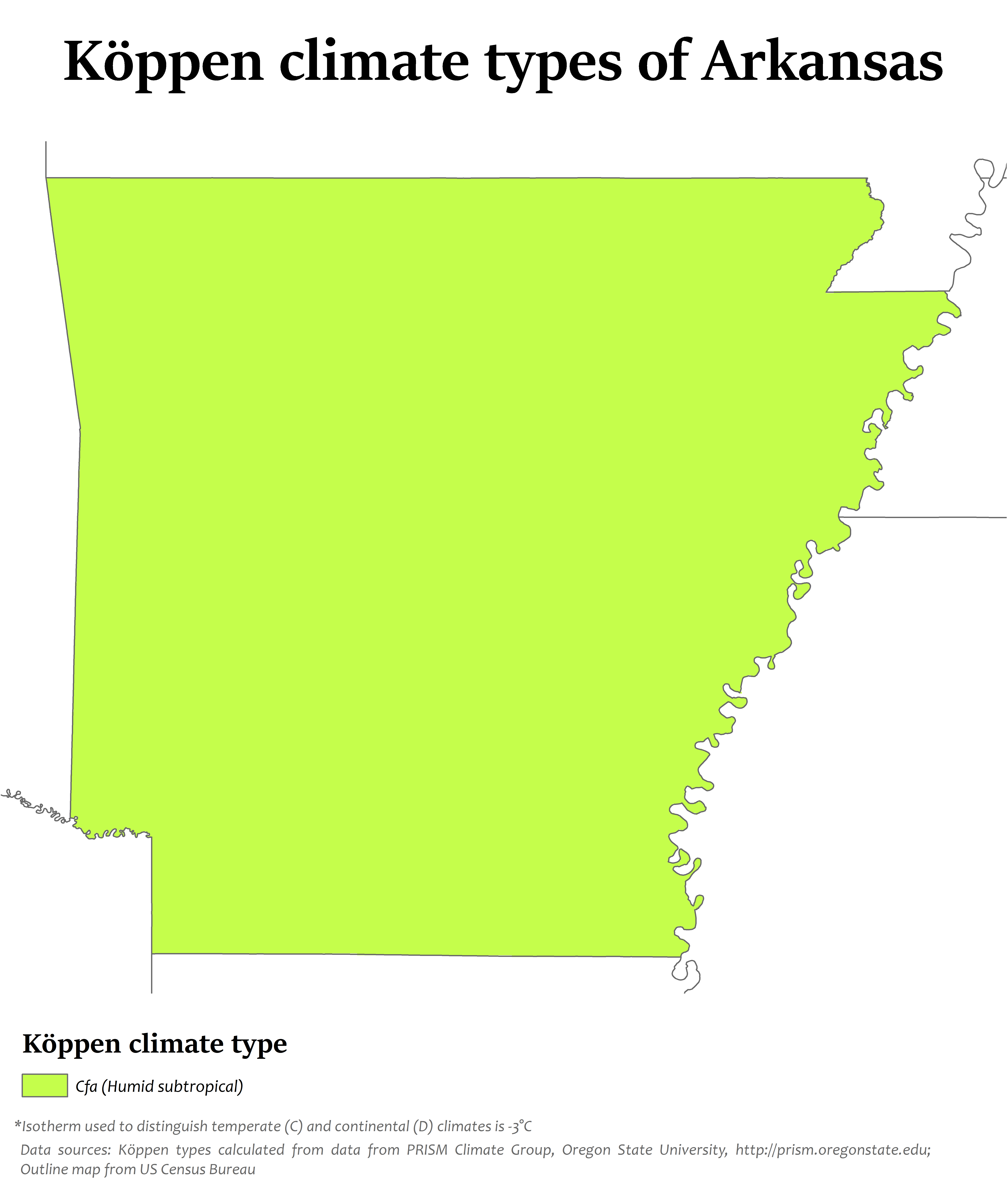 A map of Köppen climate types in Arkansas